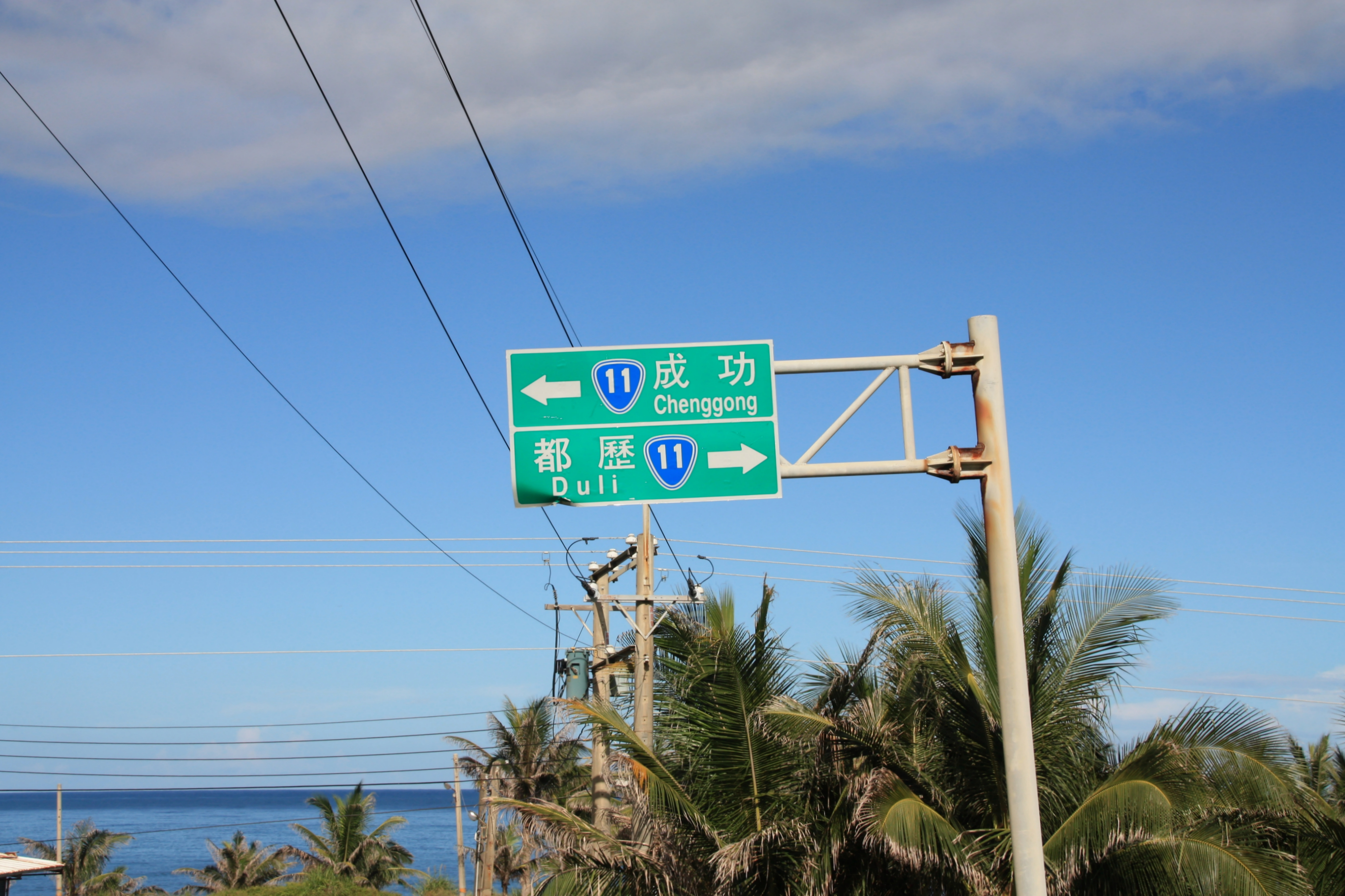 Taitung CountyChenggong TownshipHéPíng Rd (HWY 11)